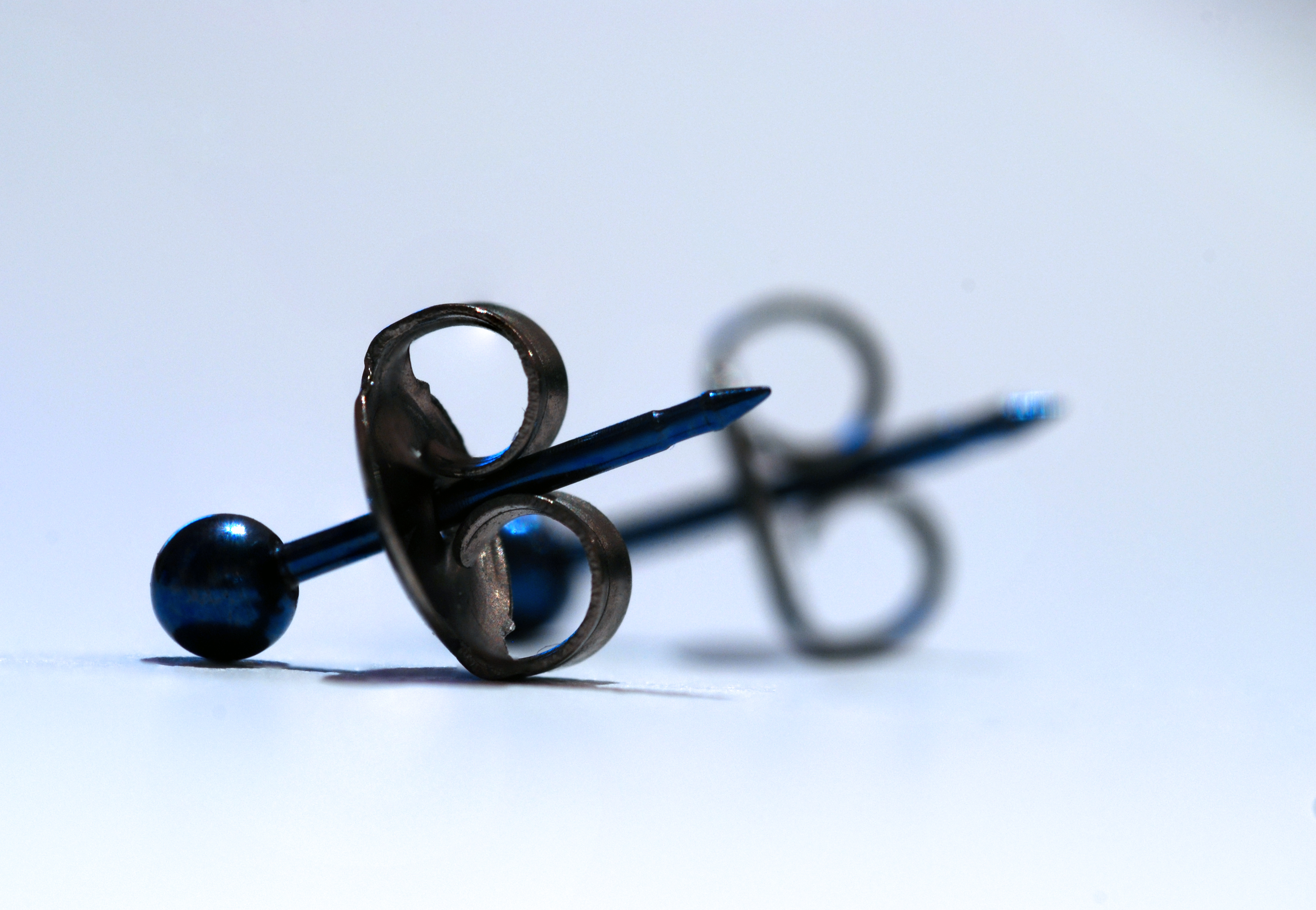 Starter studs. These earrings are used for ear piercing with a gun. They are pointed to pierce the earlobe when first inserted.